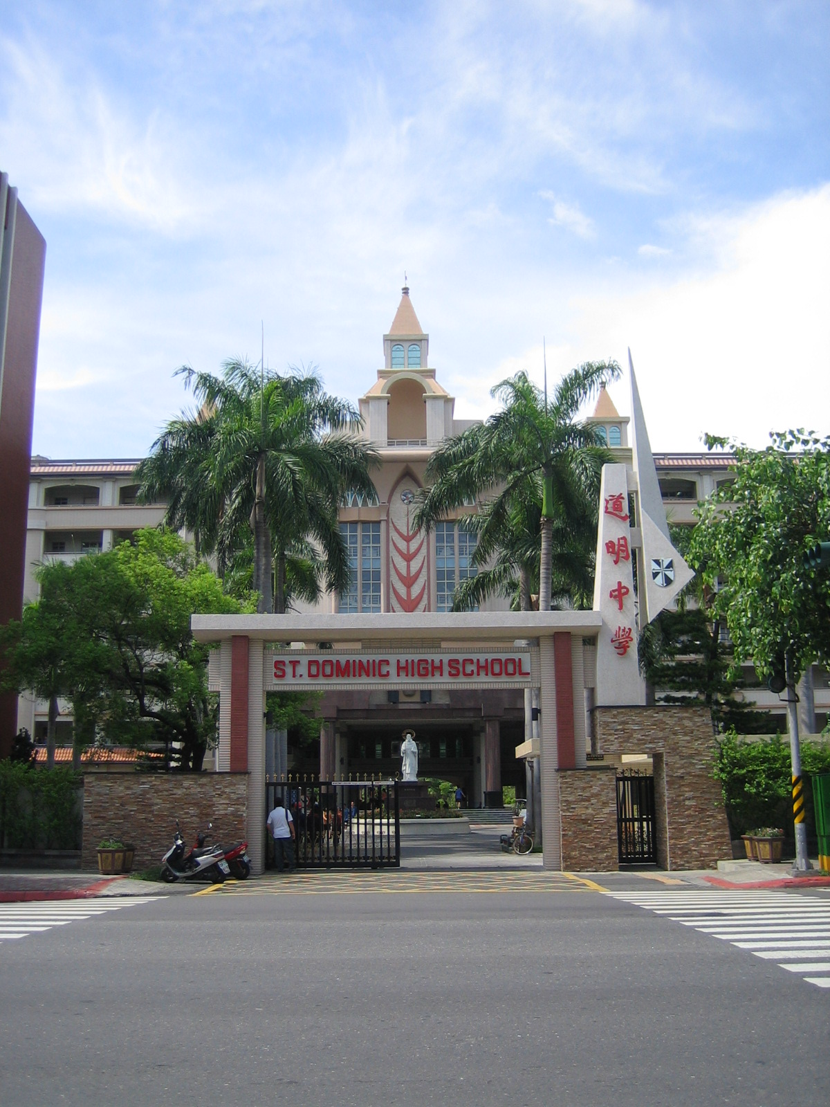 Saint Dominic High School located in Kaohsiung, Taiwan.